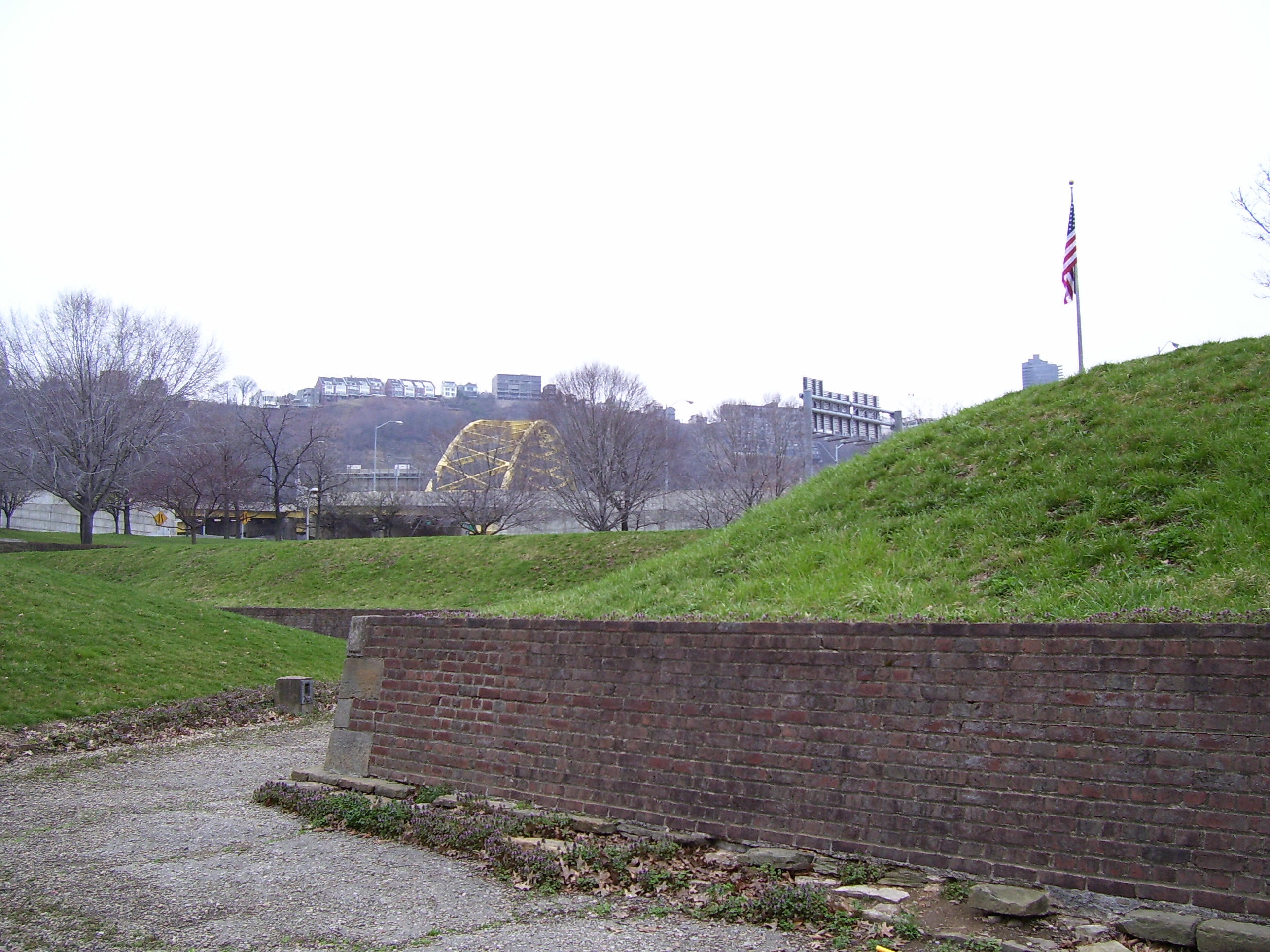 Fort Pitt (Pennsylvania), photographed April 2006.